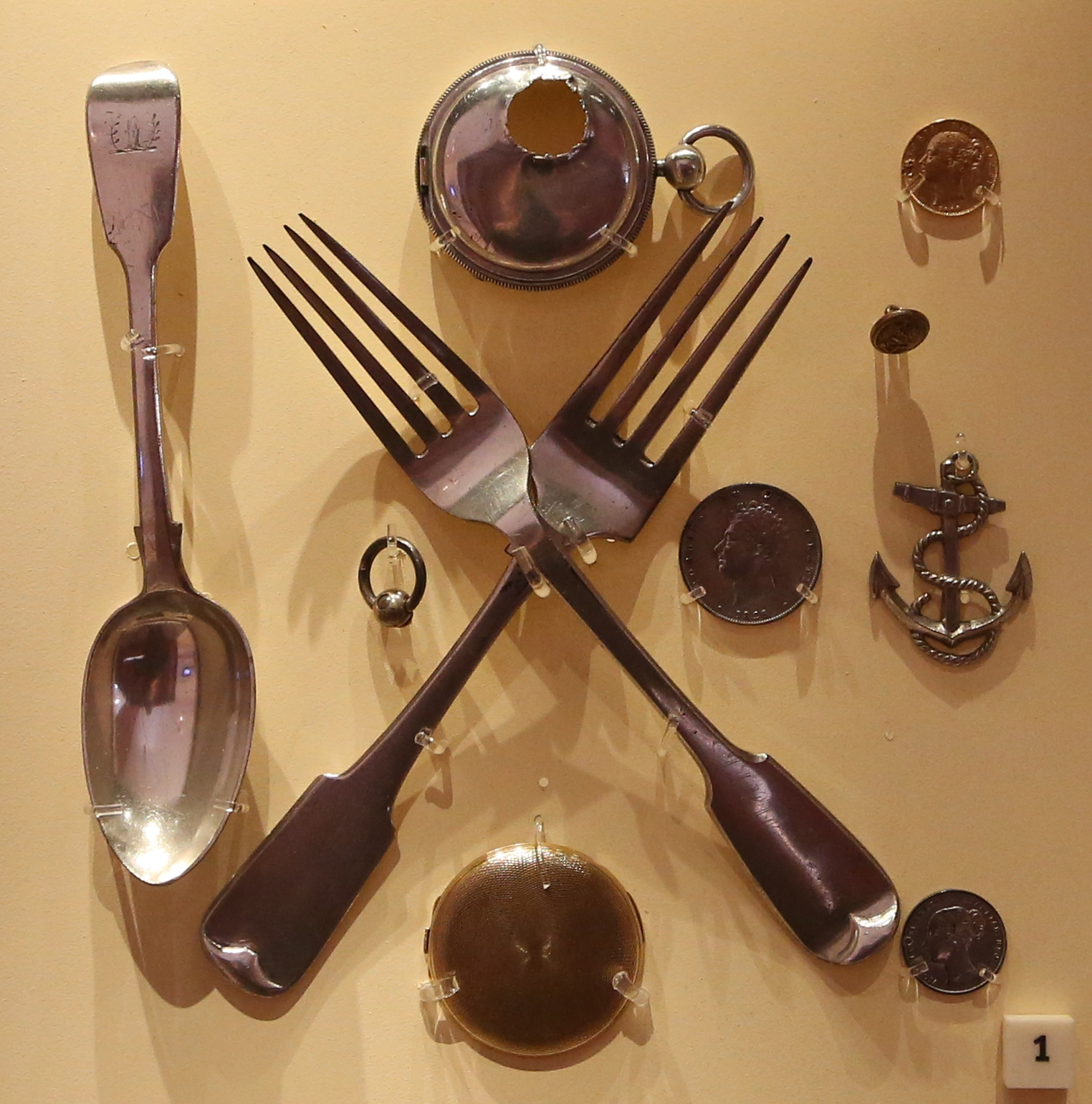 Items from the Franklin polar expedition that were later purchased from local Inuit by John Rae the first westerner to learn the fate of the expedition